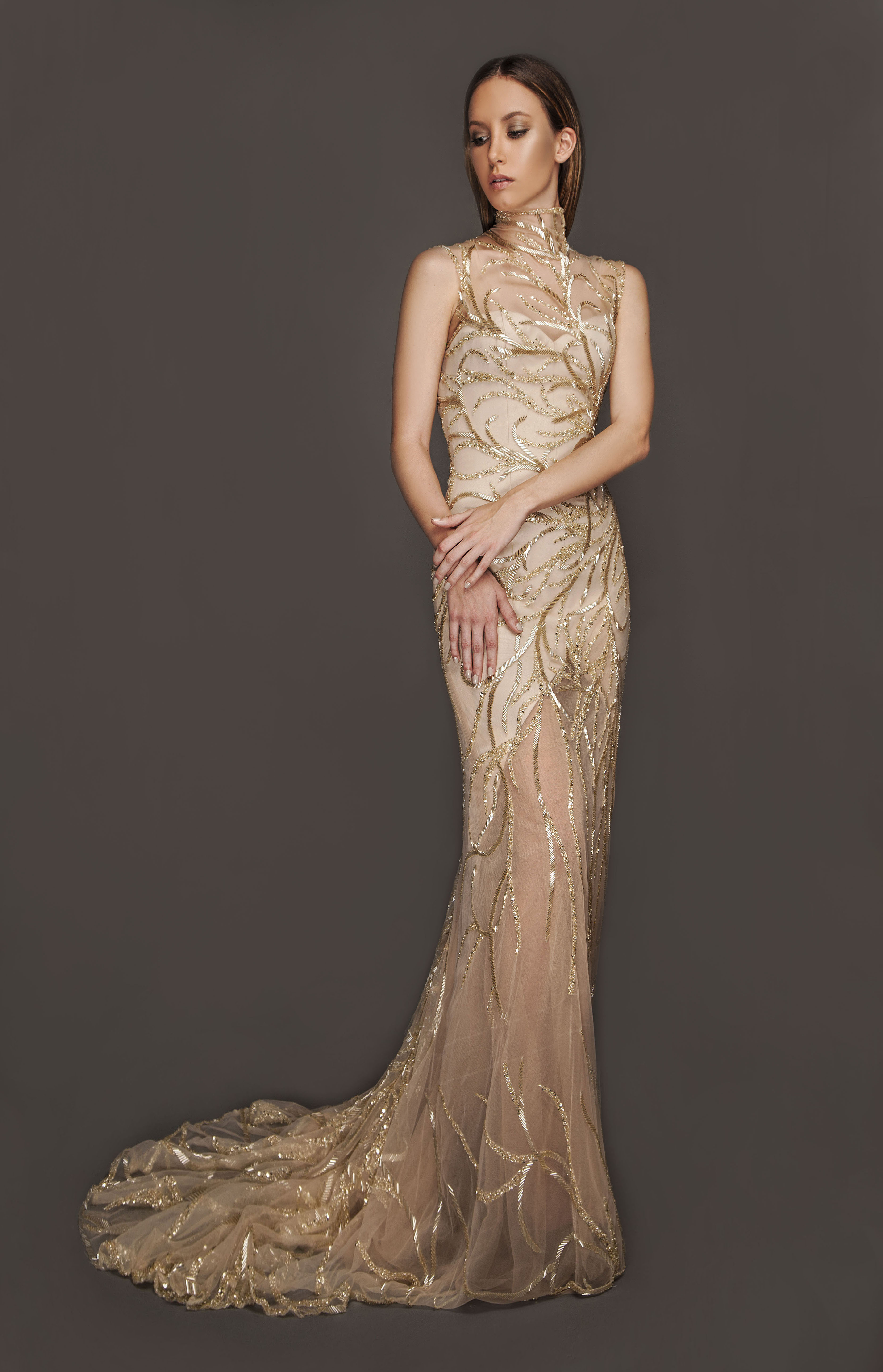 Nicolas Felizola Prive 2017